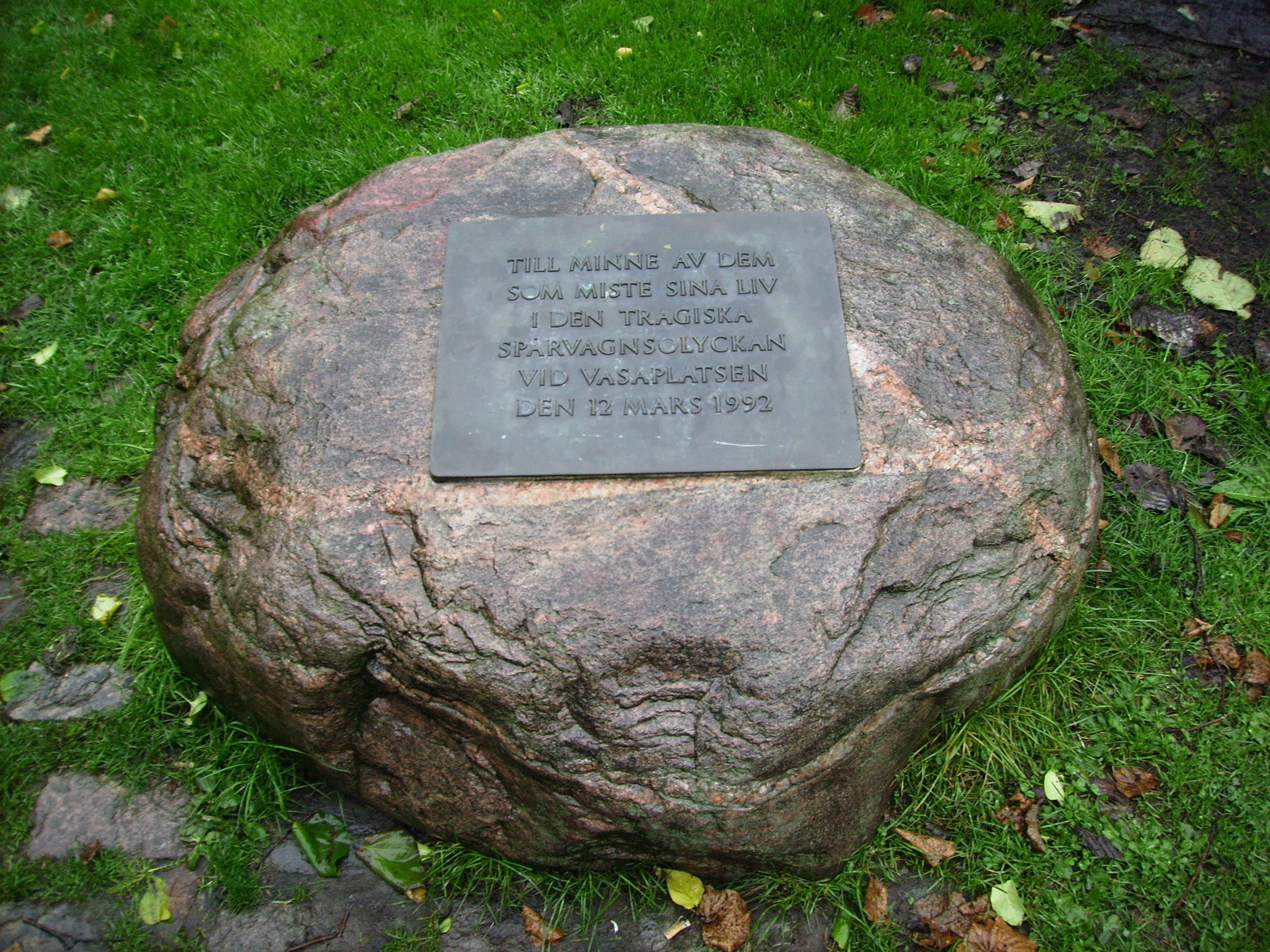 Picture of monument of tram accident in Göteborg 1992